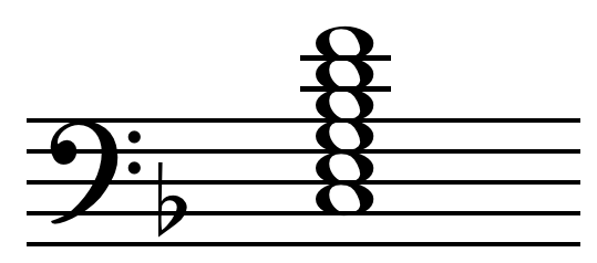 Dominant eleventh chord on C, C11, with third. V11 in F major. Created by Hyacinth (talk) 03:59, 3 July 2011 using Sibelius 5. See: File:Eleventh chord C11 chord.mid